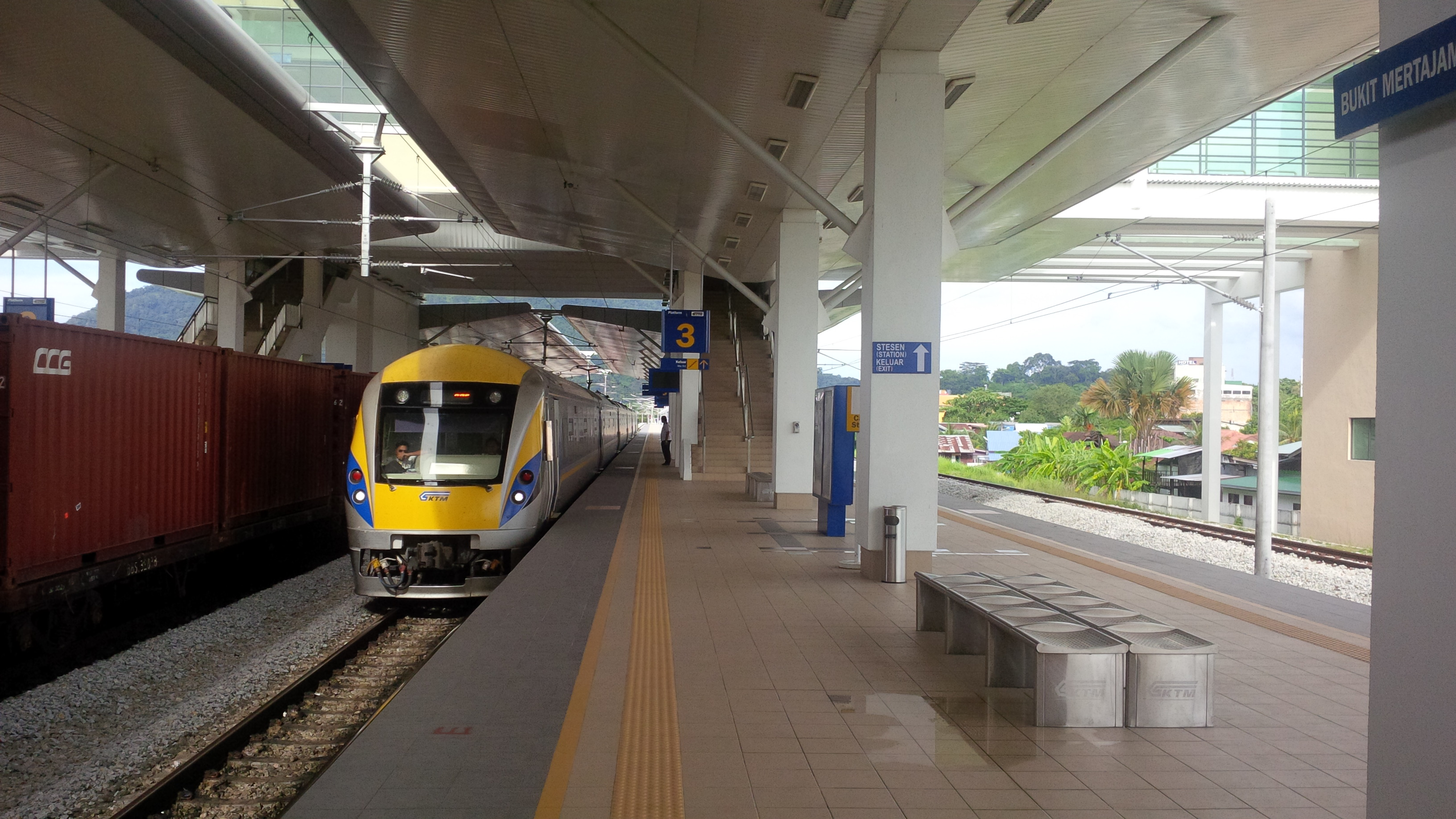 Butterworth-bound ETS Ekspres train from Padang Besar at Bukit Mertajam station at 1720 on 6 August 2015.